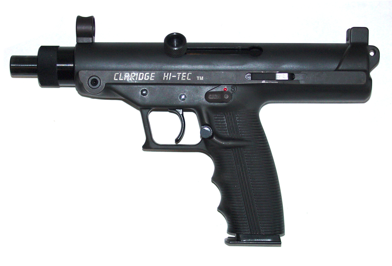 Claridge Hi-Tec S9. Claridge Hi-Tec S9 with threaded barrel protector attached. "S9" designates the model and caliber: sub-compact 9mm Luger.